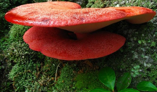 fungi